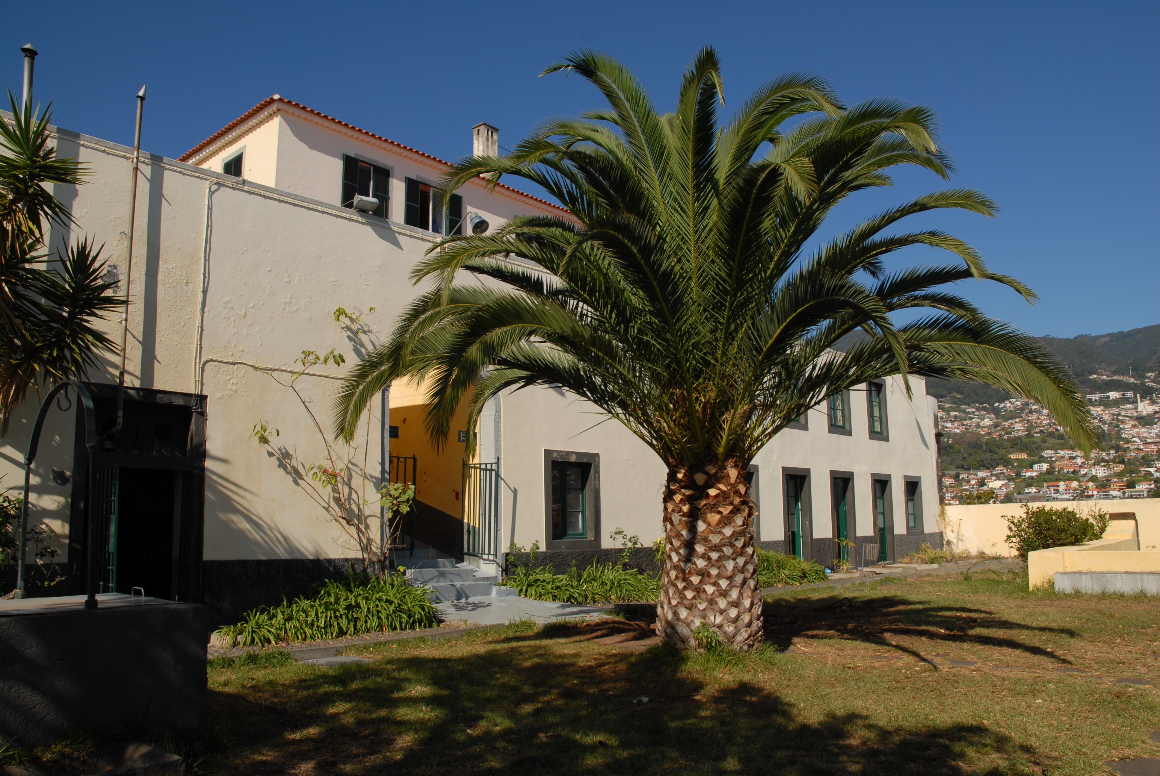 Fortaleza do Pico in Funchal, Madeira